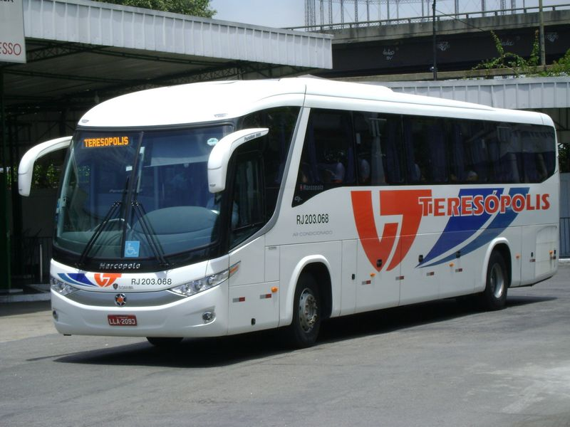 Marcopolo Paradiso 1050 coach (#RJ 203.068) with Scania chassis in Brazil. Teresópolis.